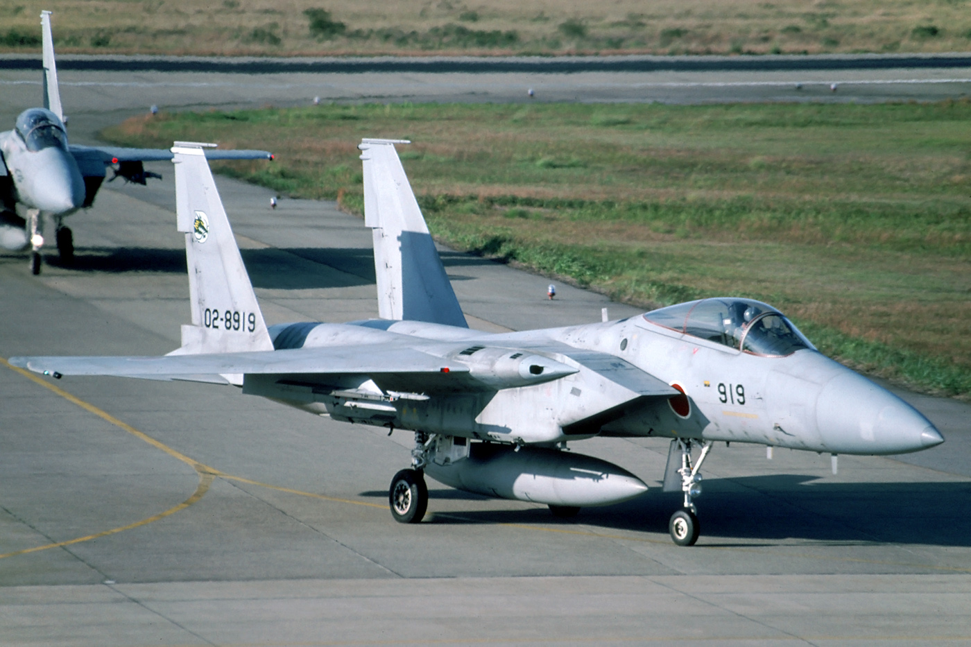 Komatsu, November 1994. Two Eagles of 303 Hikotai returning from a flight in the afternoon. Long shadows.